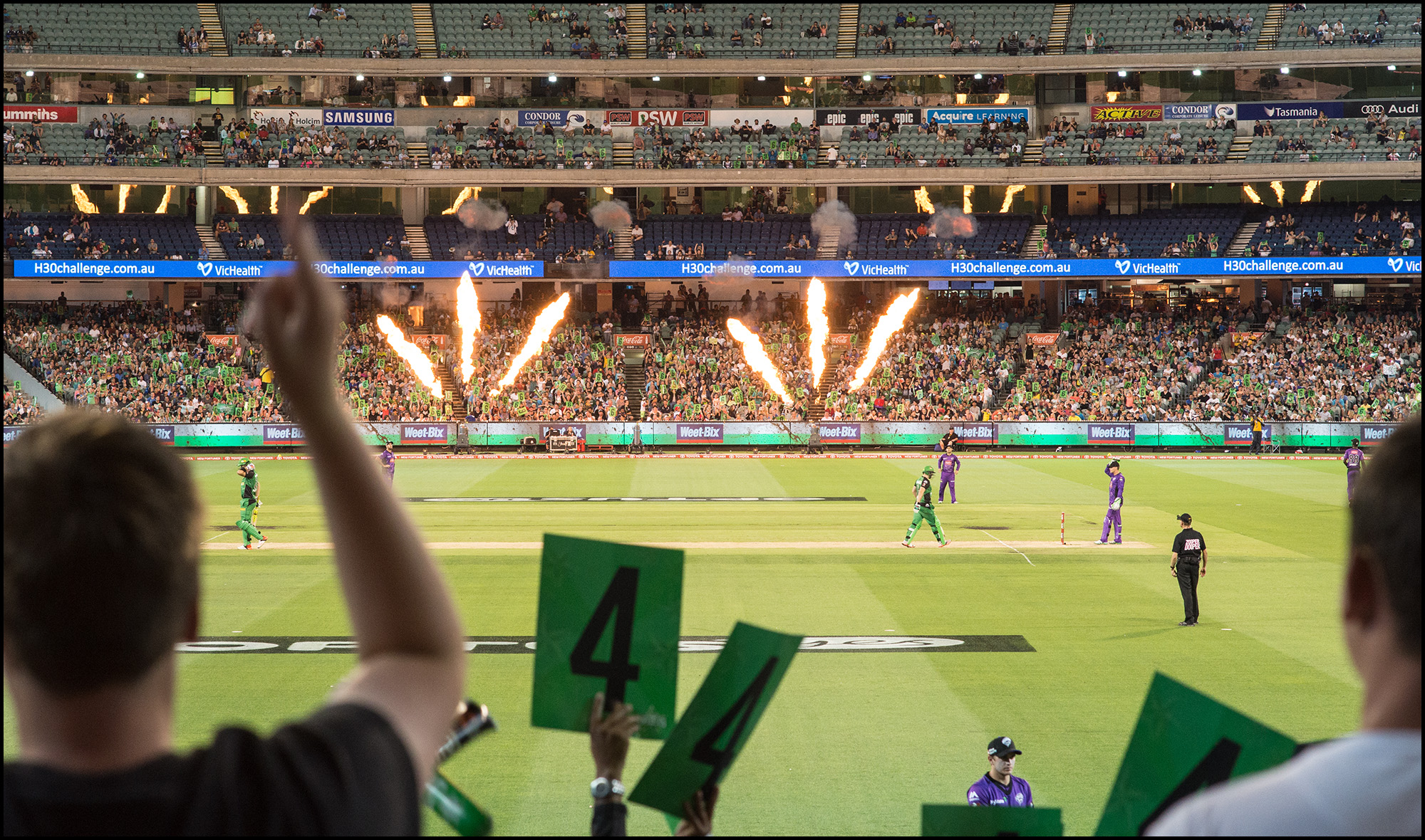 Melbourne Stars vs Hobart Hurricanes at the MCG during the fifth edition of Big Bash League (BBL)